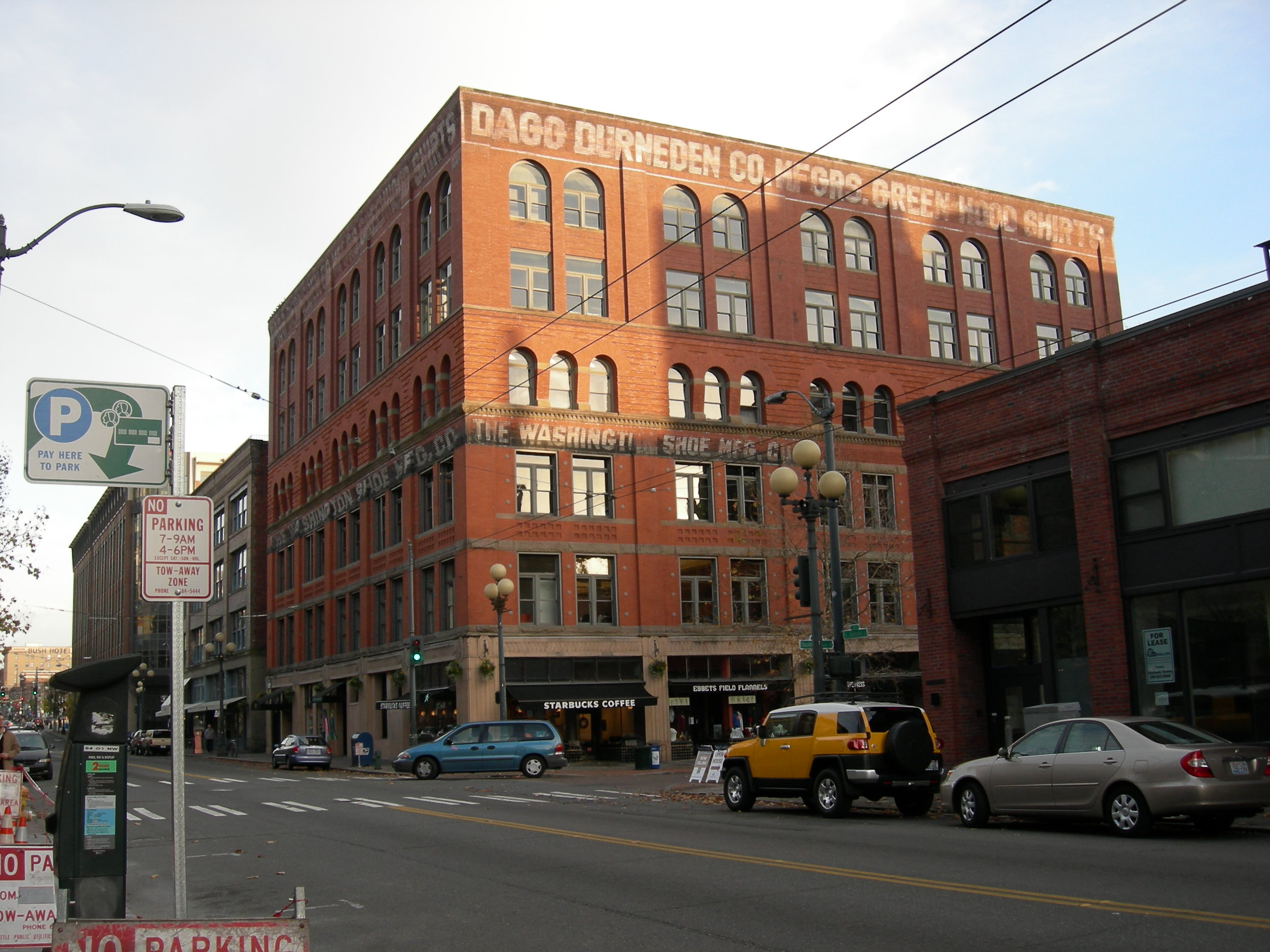 Washington Shoe Building, 400 Occidental Way South in the Pioneer Square neighborhood, Seattle, Washington, USA. Also known as J. M. Frink Building / Washington Iron Works / Washington Shoe Mfg. Company Building / Washington Shoe Company Building / "The Shoe". Visible signs from former tenants say "Dago Durneden Co. Mfgrs. Green Hood Shirts", "The Washington Shoe Mfg. Co." On the corner is a Starbucks. To its right is Ebbets Field Flannels, which manufactures and retails replicas of old professional baseball uniforms. Built 1892, remodeled many times (including two storeys added in 1912, and some art deco detailing later). Many manufacturing and warehouse uses, then for many years this was a warren of small artist studios (with retail space on the ground floor pretty much throughout). Rehabbed as offices circa 2000. For more information see Summary for 400 Occidental WAY / Parcel ID 5247800735, Seattle Department of Neighborhoods.